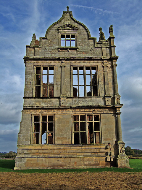 Moreton Corbet Castle - The Elizabethan Wing This is the ruined Elizabethan wing of the castle whose construction was commenced in c.1200. Built in the late C16 for Sir Andrew Corbet and Robert Corbet, it became known as Moreton Corbet Hall. It is Grade I Listed.